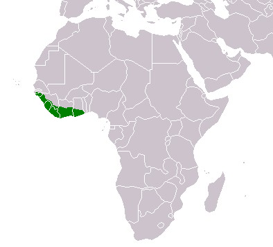 Distribution of Cercopithecus campbelli